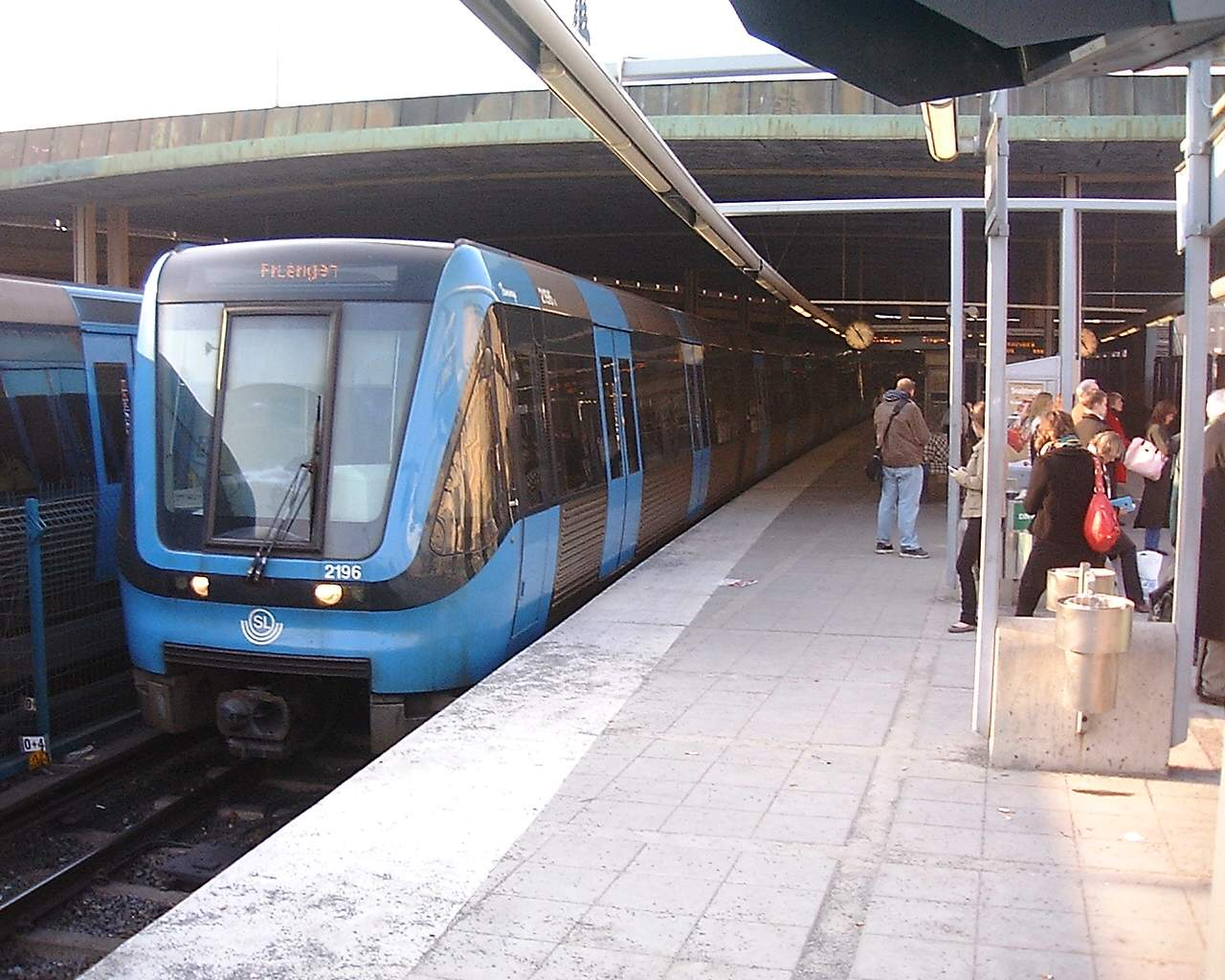 A C20 train at the Gamla stan metro station, Stockholm.